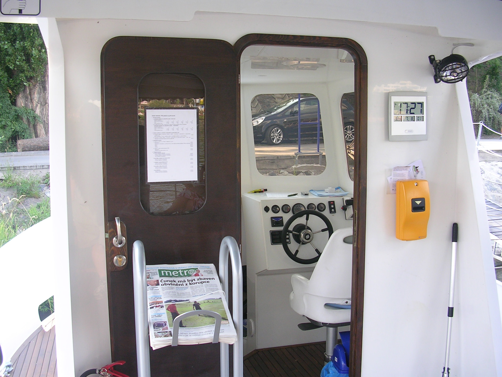 Vltava ferry Zlíchov, Lihovar – Podolí, Veslařský ostrov, Prague, Czech Republic.